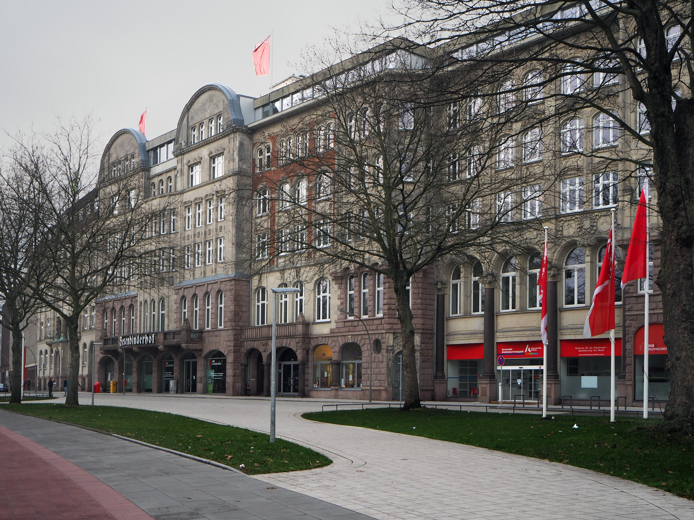 Hamburg, Besenbinderhof , Gewerkschaftshaus, Gesamtkomplex, Foto: Dezember 2016 This is a photograph of an architectural monument.